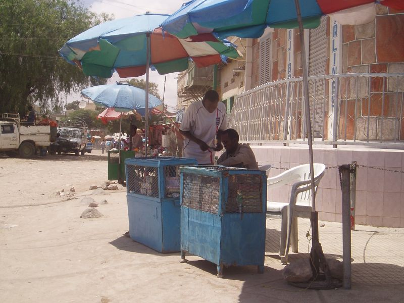 Money changers in Somaliland, March 2, 2005. The metal containers are full of money. Although it seems as if there is lots of money, £1 is equivalent to 10000 shillings. Largest denominations are 500 shillings, so not more than £100 pounds there. Bank robbers would need Lorries! Despite absolute poverty, street crime and violence is rare.